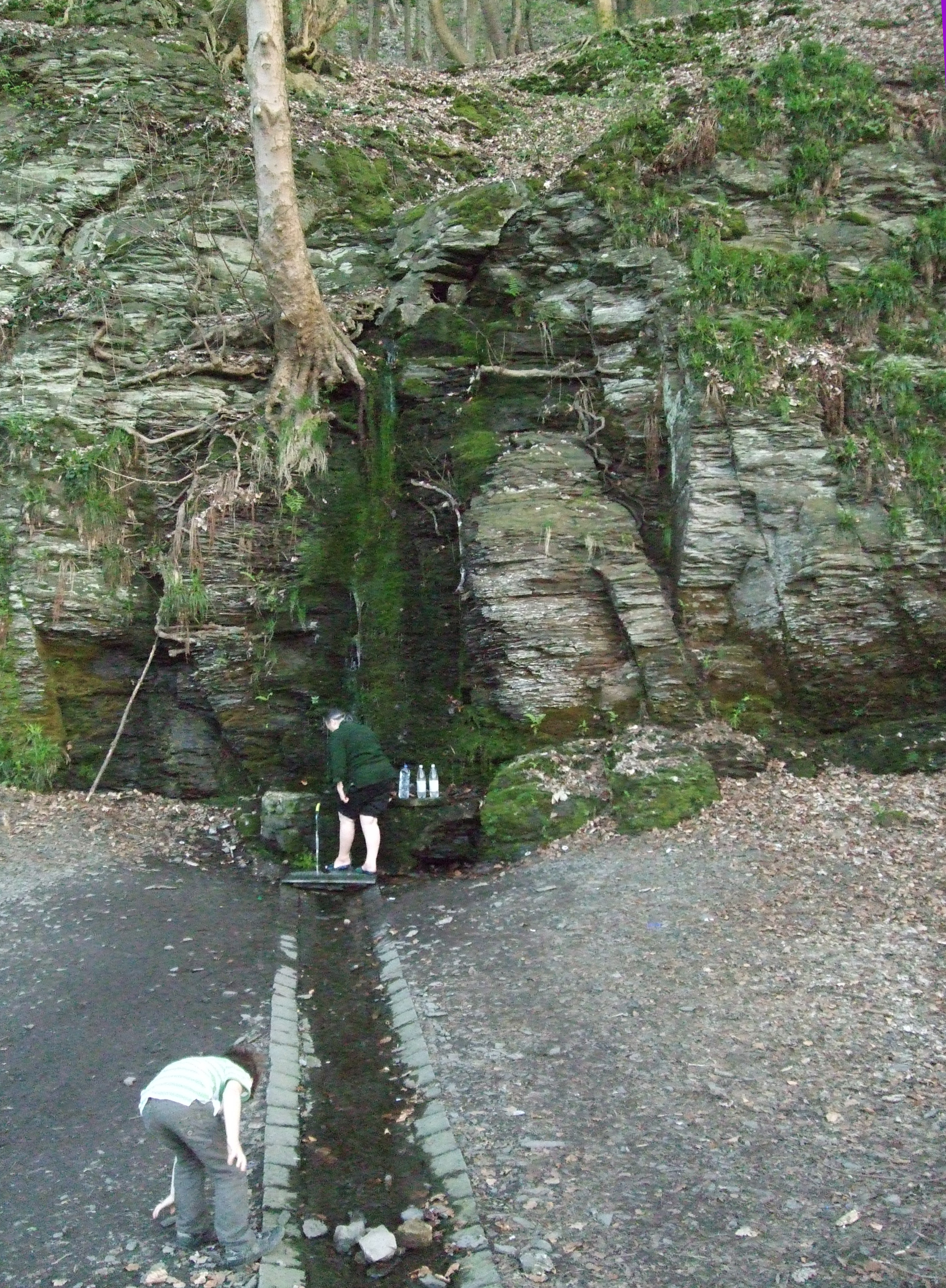 Türkenquelle, Essen-Kettwig, Germany